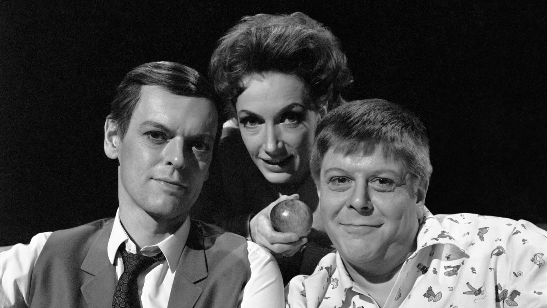 Publicity photograph of the Finnish actors Leif Wager (1922–2002), Hilkka Östman and Nils Brand (1932–1990) for the 1968 TV show Var är min stora ludiga nalle?